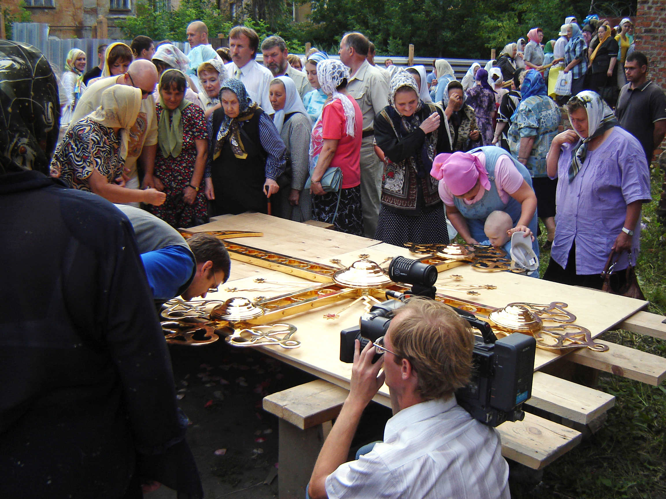 The consecration of the dome cross of Kazan convent in the town of Ryazan on 20 July 2007. Photo: Andrei Mironov